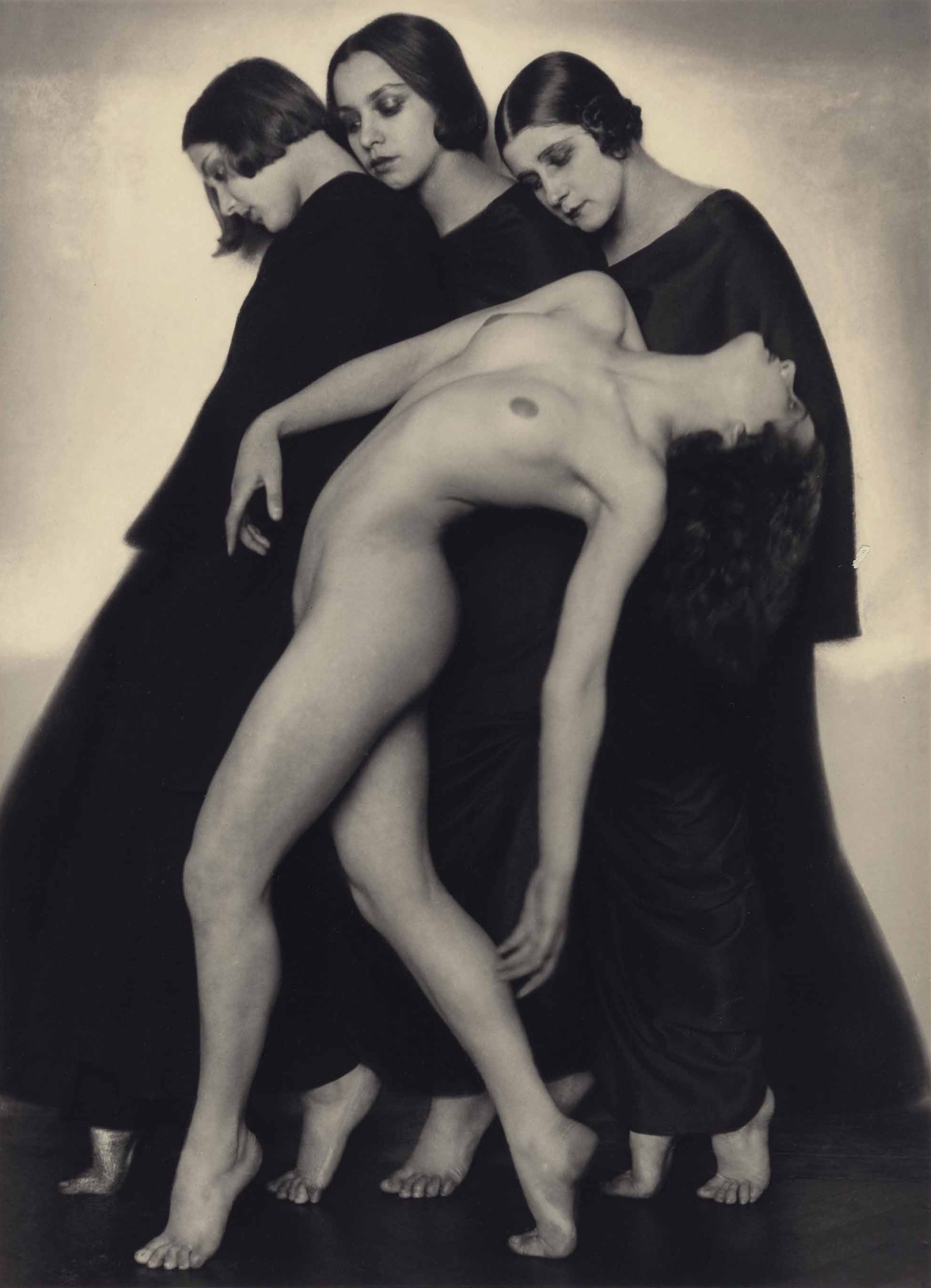 Bewegungsstudie (Movement Study, in German), 1925, black and white photograph by Rudolf Koppitz (1884-1936). Gelatin silver print on carte-postale, printed c. 1930. In 1925 Koppitz created his masterpiece, Bewegungsstudie, in which he photographed the nude dancer, credited to be the Russian Claudia Issatschenko, but who is more likely the daughter of this woman, ballet dancer and choreographer, Tatyana Issatschenko Gsovsky, with her head thrown dramatically back and flanked by three dark-robed women, lends Bewegungsstudie to the highly decorative and symbolist tradition of the Viennese Jugendstil. Photographer's blind stamp (margin); photographer's Prof. R. Koppitz, Photo-Werkstätte address and copyright credits in print, numbered '1' with various annotations in pencil (verso). Image: 4 1/8 x 3 3/4 in. (13 x 9.4 cm.). Sheet: 5 x 4 in. (15.2 x 10 cm.). Provenance: Private Collection, New York; with Edwynn Houk Gallery, New York; with Galerie Kicken, Berlin; Katrina Doerner Photographs, New York, 2011.